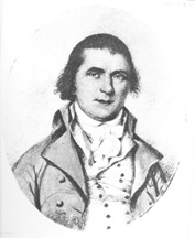 Portrait of Senator Andrew Moore of Virginia